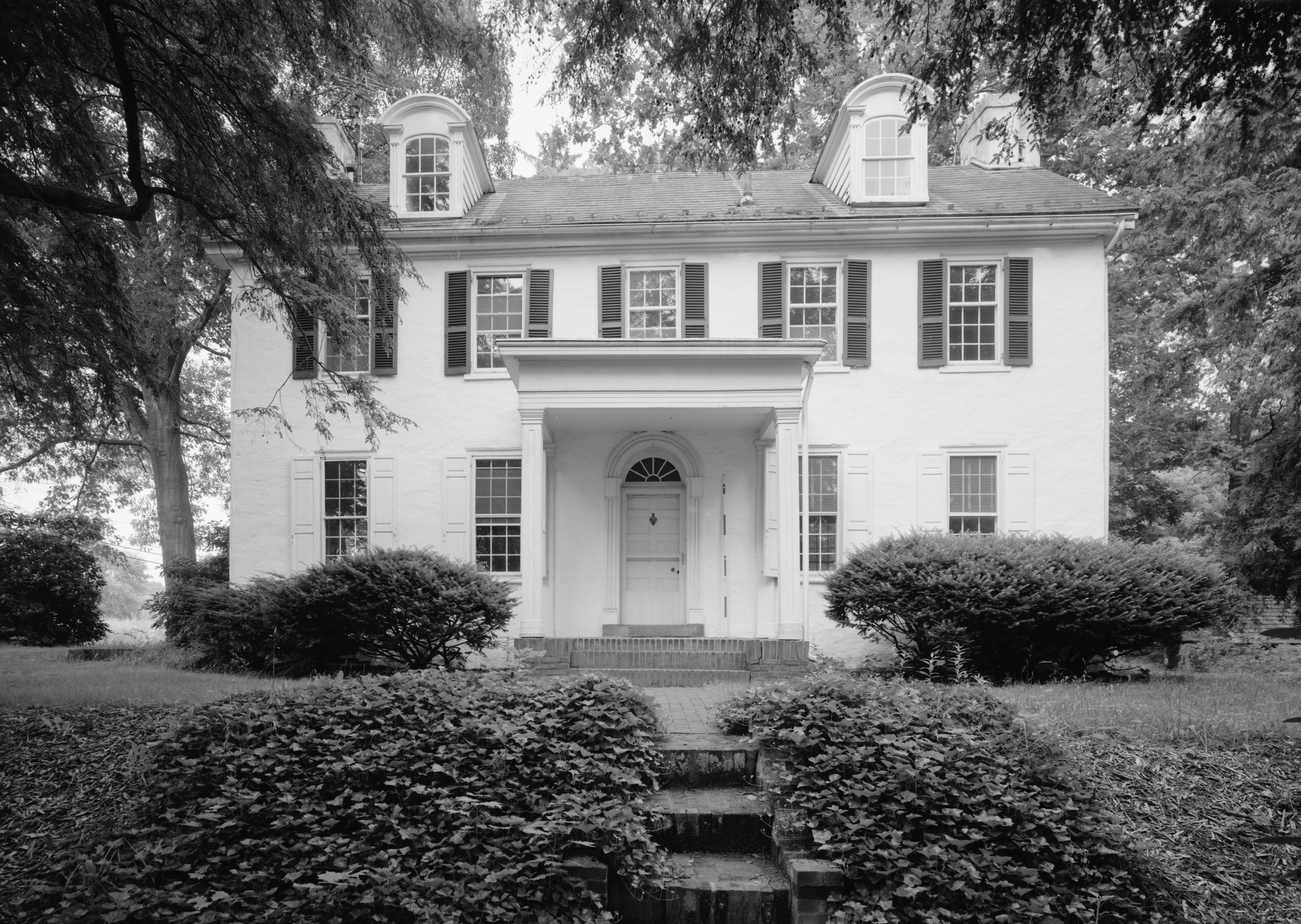 1. WEST (FRONT) ELEVATION - Edgemont, 212 Bridgetown Pike, 1/4 mile East of PA 413 (Middletown Township), Langhorne, Bucks County, PA